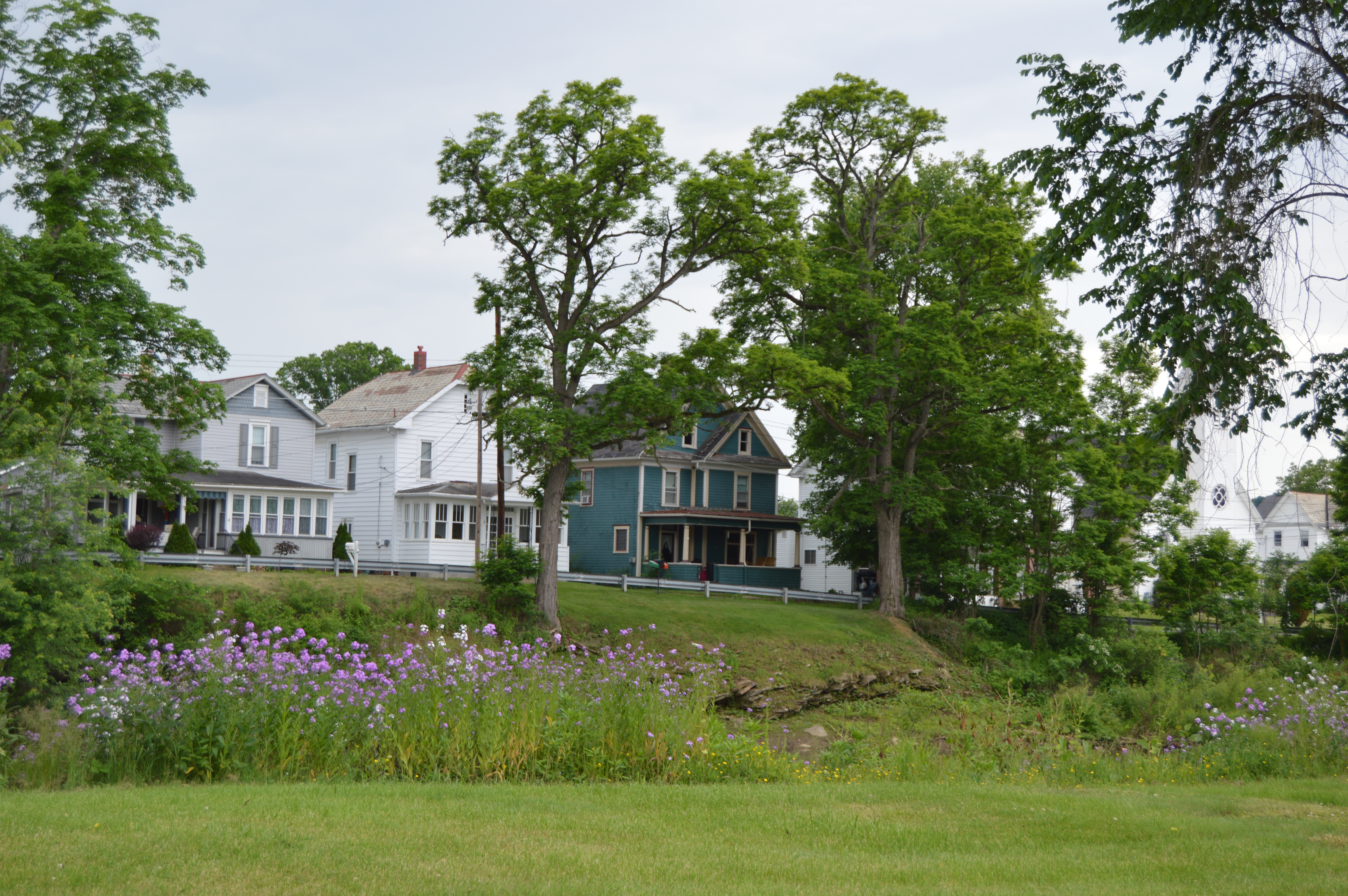 Houses on Church Street east of Third Avenue, seen from Water Street on the other side of Redbank Creek, in Summerville, Pennsylvania, United States.